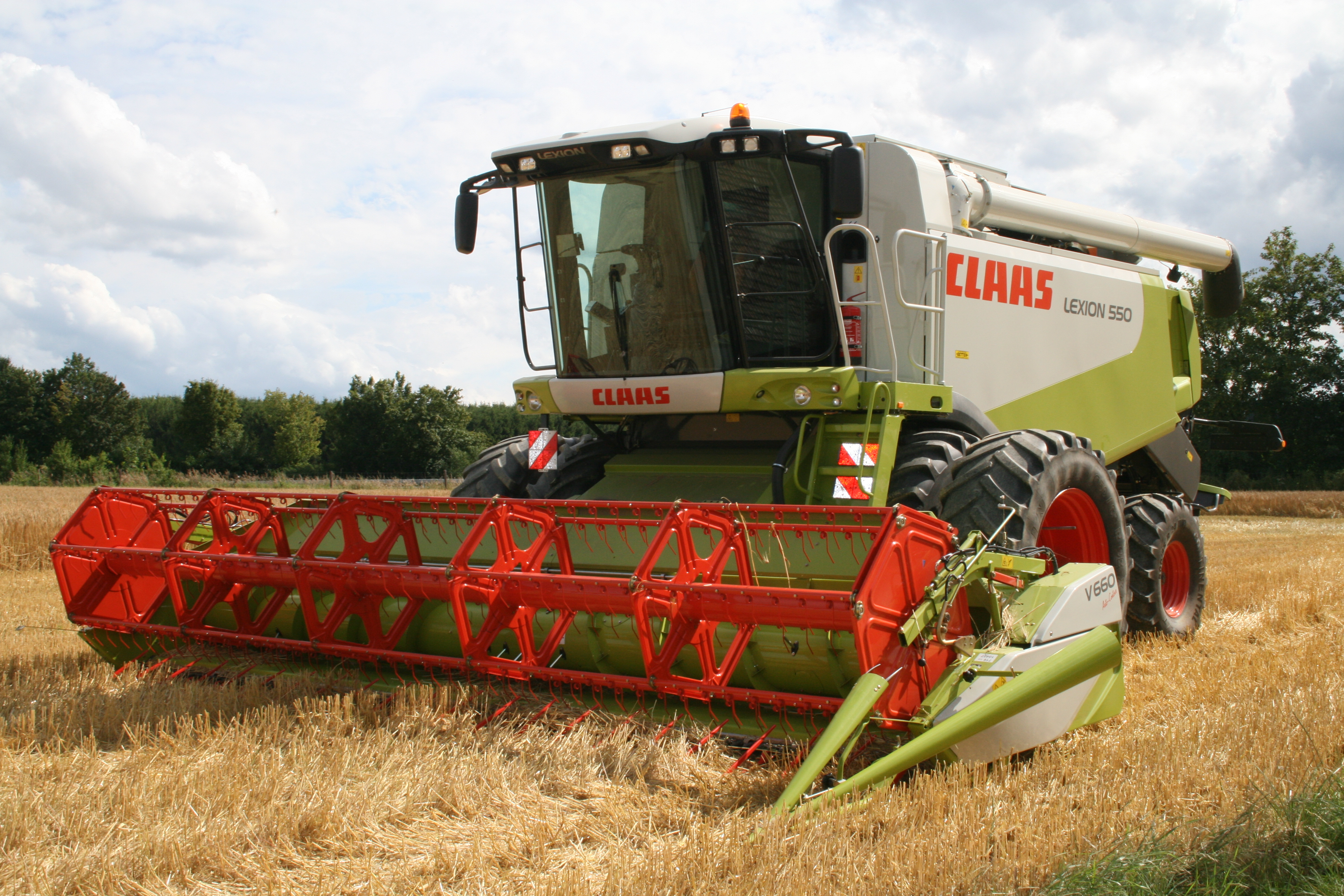 Combine Claas Lexion 550